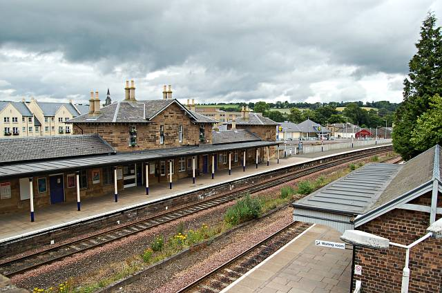 Cupar Railway Station